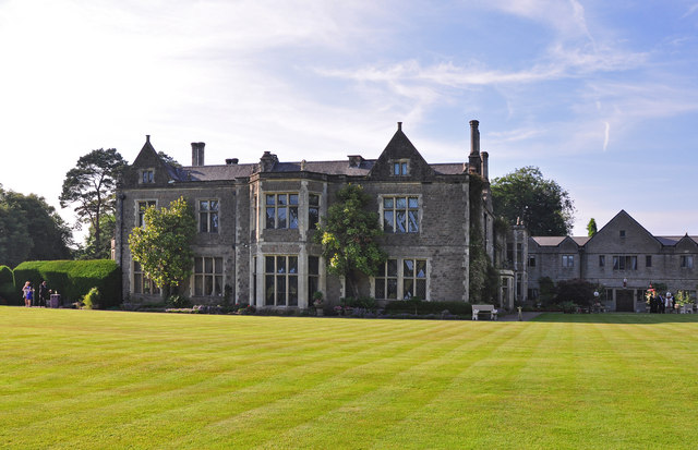 Miskin Manor Hotel